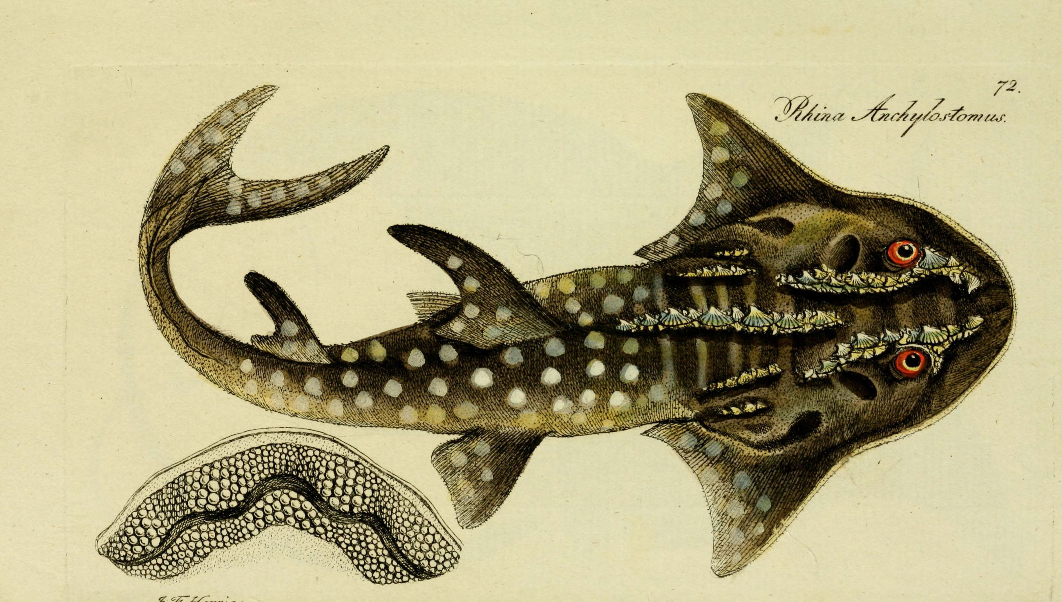 Rhina ancylostoma M.E. Blochii ... Systema ichthyologiae iconibus CX illustratum / post obitum auctoris opus inchoatum absoluit, correxit, interpolavit Jo. Gottlob Schneider, Saxo.